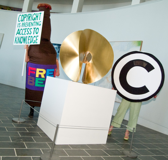 OLYMPUS DIGITAL CAMERA FREE BEER version 3.2, St Austell